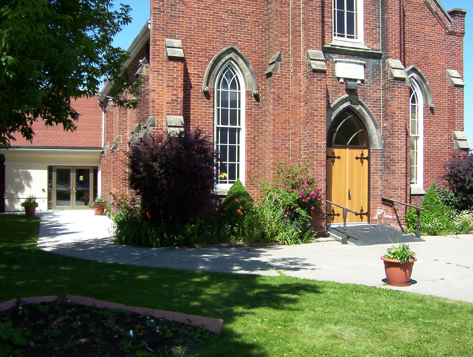 Downsview United Church, 2822 Keele Street, North York, Ontario, Canada